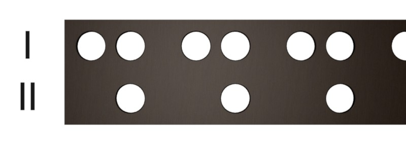 double-draw tracker of a pipe organ, in rest